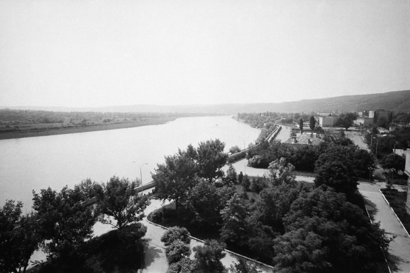 Soroca from the height of the crane.